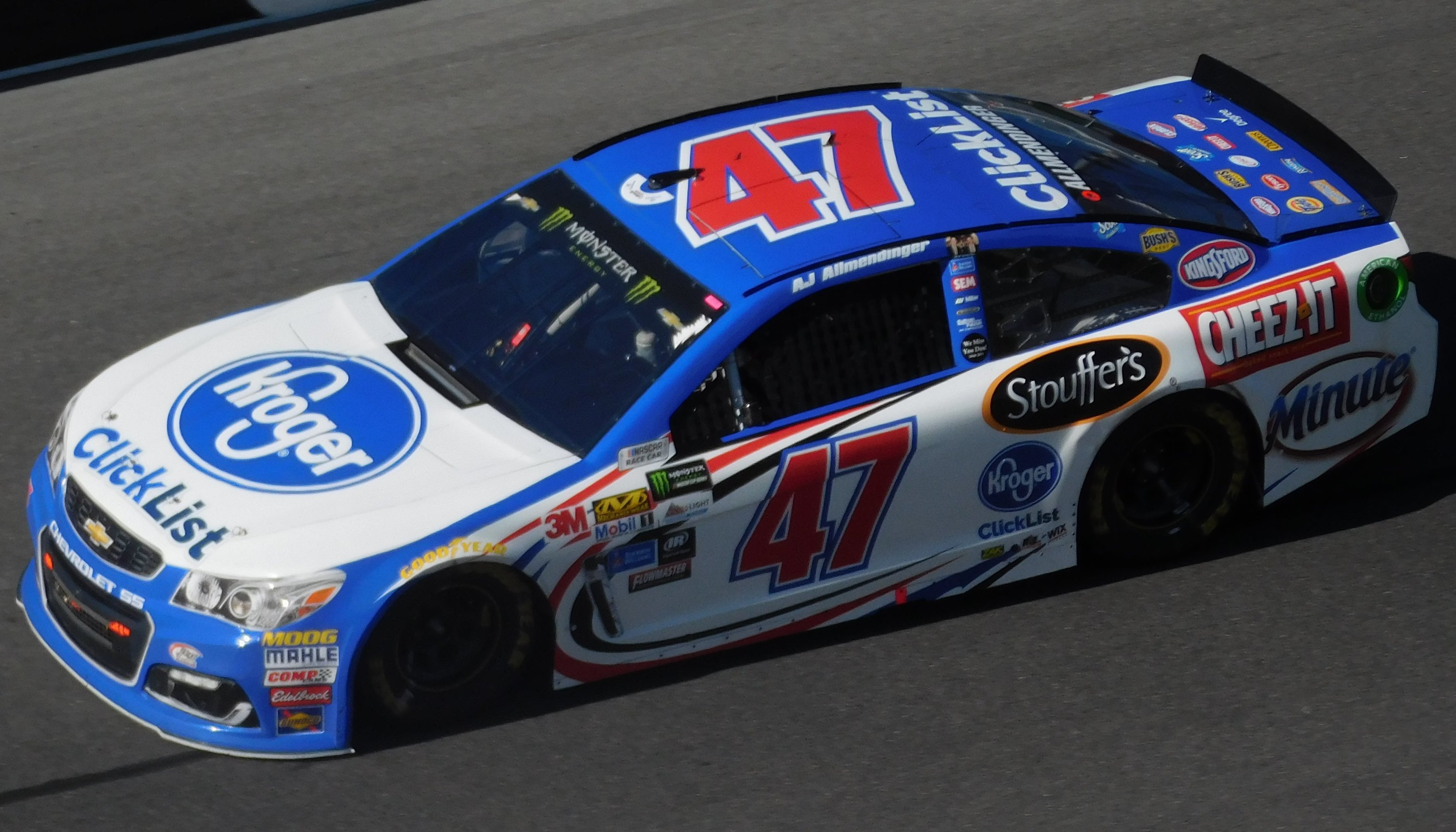 A.J. Allmendinger's No. 47 Kroger ClickList Chevrolet at Daytona International Speedway in 2017